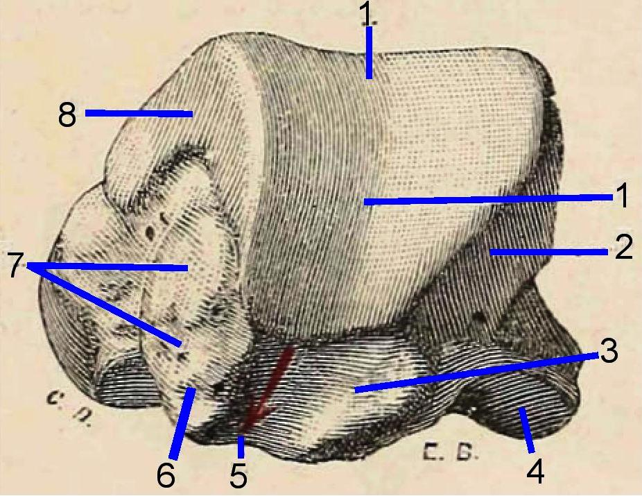 Talus, posterior face Testut